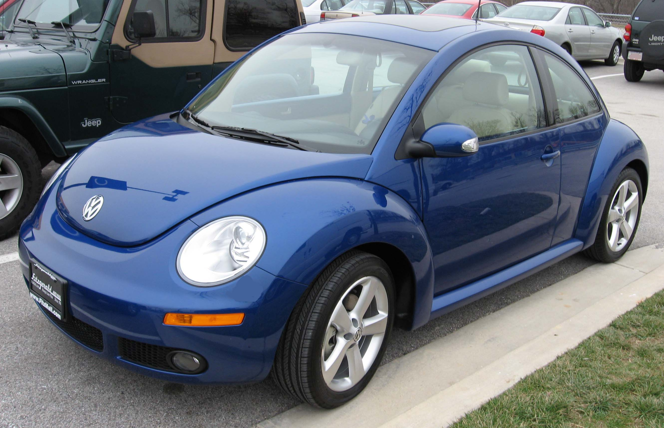 2006-2007 Volkswagen New Beetle photographed in USA.